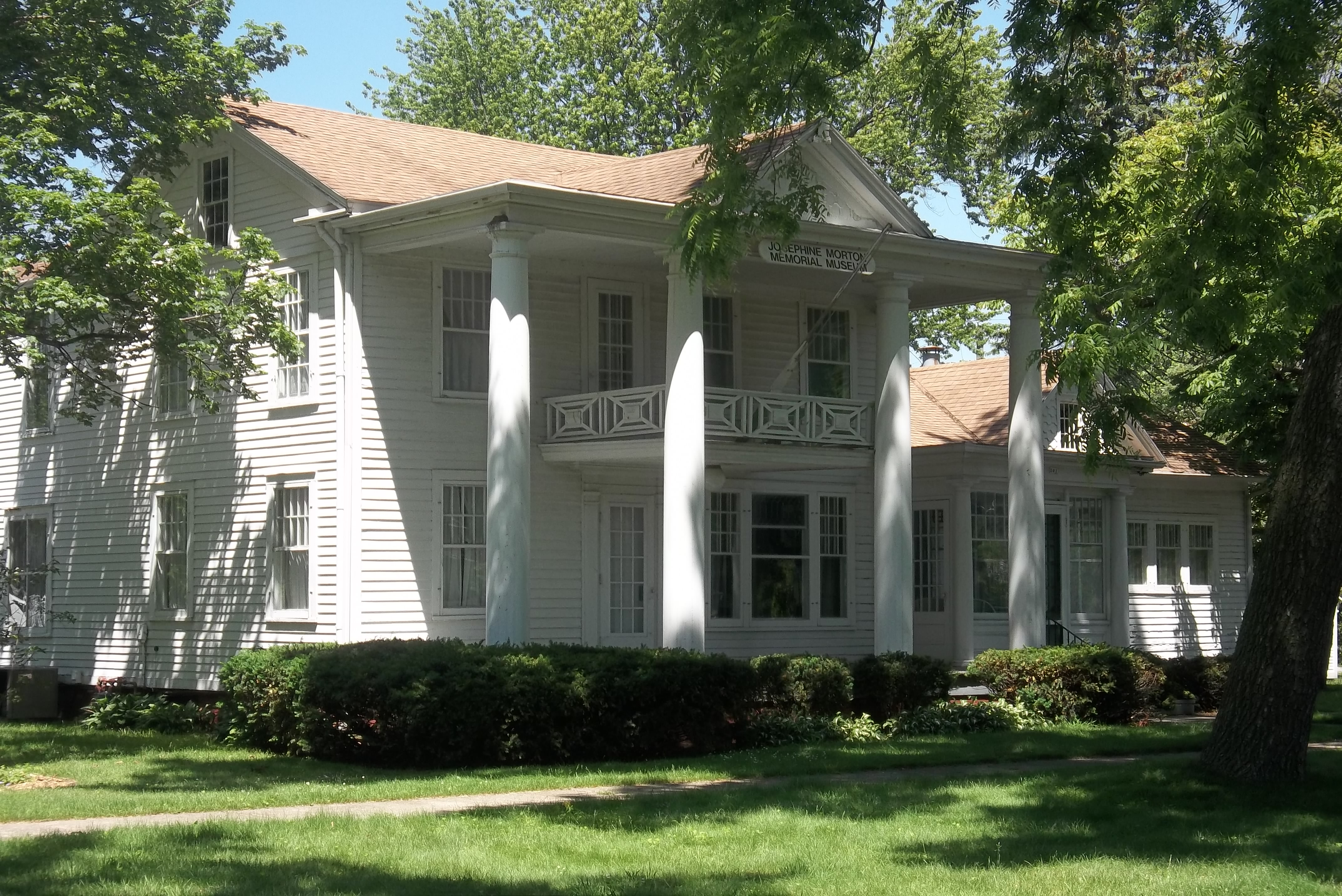 The Morton House is located at Morton Hill in Benton Harbor.